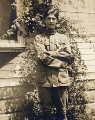 Category:Boy Scouts of America images (Original text: Arthur Eldred, first Eagle Scout, shortly after receiving the Eagle award and his Bronze Honor medal for saving a life.)